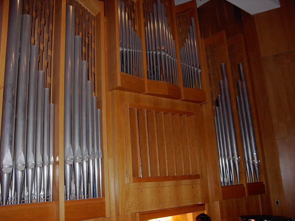 "Jemlich" organ im Music Academy, Sofia, Bulgaria